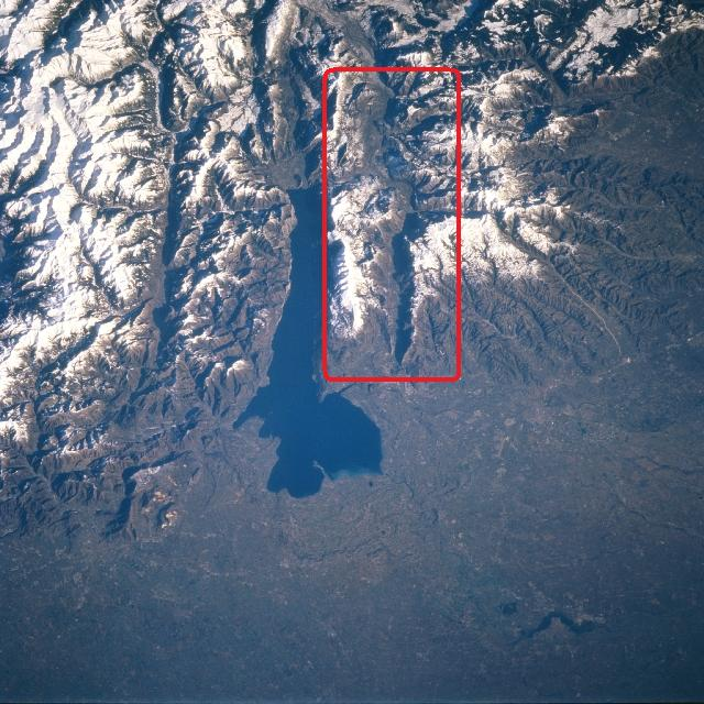 Lake Garda, Italy January 1997 Earth.Jonhson Space Center.National Aeronautic and Space Administration.government/Space Shuttle Earth Observations Photography/Earth From Space/low resolution.Lago di Garda - Italy View from Space Shuttle Atlantis, mission STS081-717-66, Launch: 1/12/97. Lake Garda, the elongated, dark feature near the center of the picture, is one of several glacially formed lakes in the Italian Alps of northern Italy. Lake Garda occupies a basin where the southern extent of an Alpine valley was deepened by glaciers and dammed by a large terminal moraine. The lake is 32 miles (51 km) long and has contrasting scenery that includes open, rolling plains at the southern end and rugged, precipitous mountains east and west of the lake. The paralleling valleys adjacent to Lake Garda show elongated, dark features, which are shadows caused by the high, snow covered mountains. There is, however, a small lake (dark feature) in the valley immediately west of Lake Garda. The Italian cities of Verona (southeast of the lake) and Brescia (southwest of the lake) are in this scene but cannot be identified because of the small scale of the image and the lack of contrast between the natural environment and the urban areas. The bottom third of the image shows a section of the broad alluvial plains of the Po River Valley. Kamlesh P. Lulla Ph.D. Chief, Earth Sciences Branch Responsible NASA Official: Ed Wilson Curator: Jaime Powell Last Update: 06/17/2002